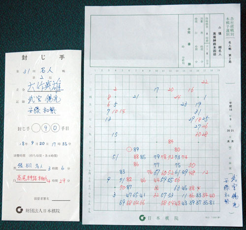 Example